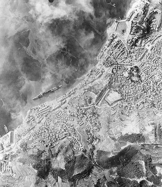 Vertical aerial photograph of Japanese cruiser Aoba and nearby buildings and terrain at Nabe, near the Kure Navy Yard, Japan. Taken from a USS San Jacinto (CVL-30) plane during air attacks on 28 July 1945. Smoke is coming from under Aoba's bridge, to starboard, where she had been hit by a carrier plane's bomb. Large hole in her stern is from direct hits made by USAAF B-24 bombers.